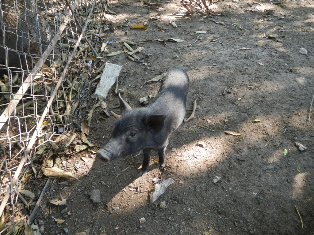 Wild pigs of the Philippines (Sus philippensis) Wild pigs of the Philippines Philippine warty pig (Sus philippensis) baboy-ramo o Sus scrofa (Ingles: wild boar, boar, wild pig) in captivity, domesticated by Pulilan Polo Field founder, Atty. Jun Eusebio BigBen Farm, Sitio Lucky 14, Barangay Tabon,Pulilan, Bulacan.